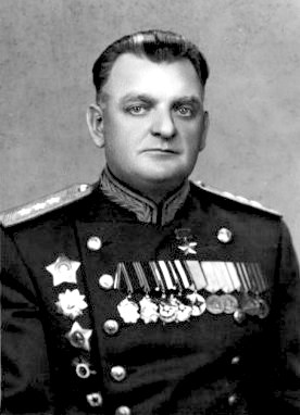 Soviet general Alexey Rodin, mid to late 1940s